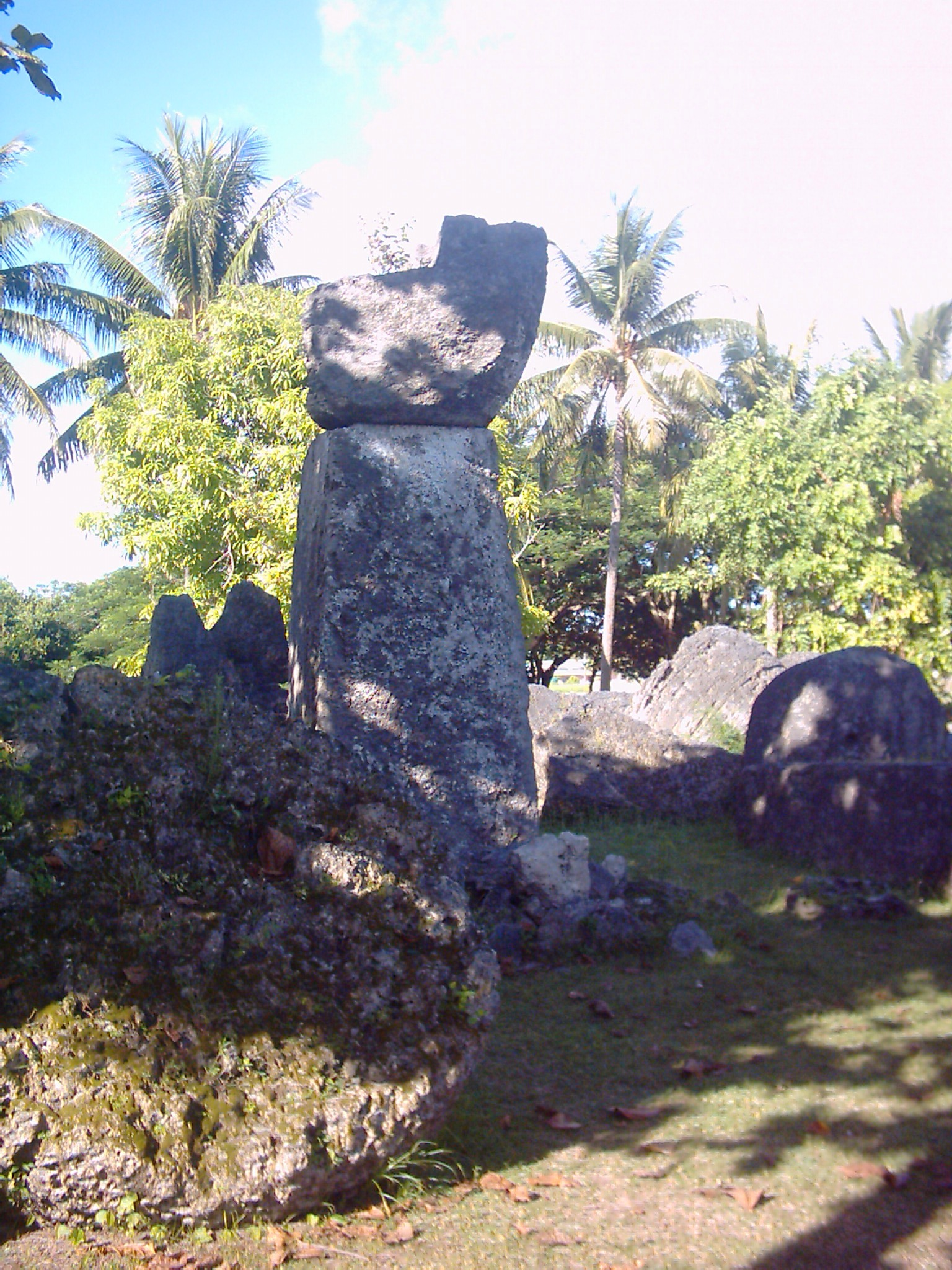 Taga House, Tinian, MP. The largest Latte Stone structures in the Mariana Islands